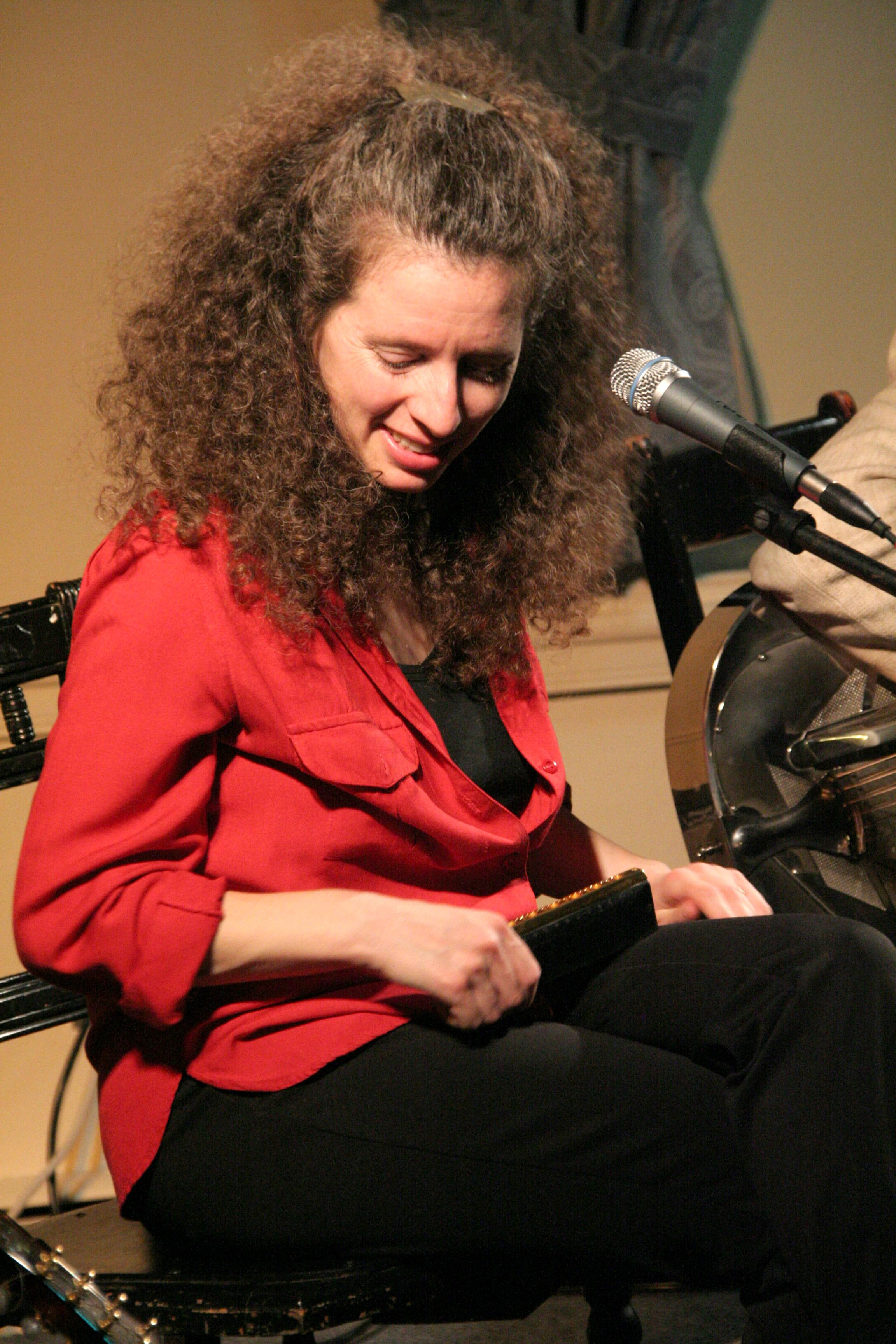 Annie Raines playing with Paul Rishell at the Cafe Blue Hills 4/12/2008